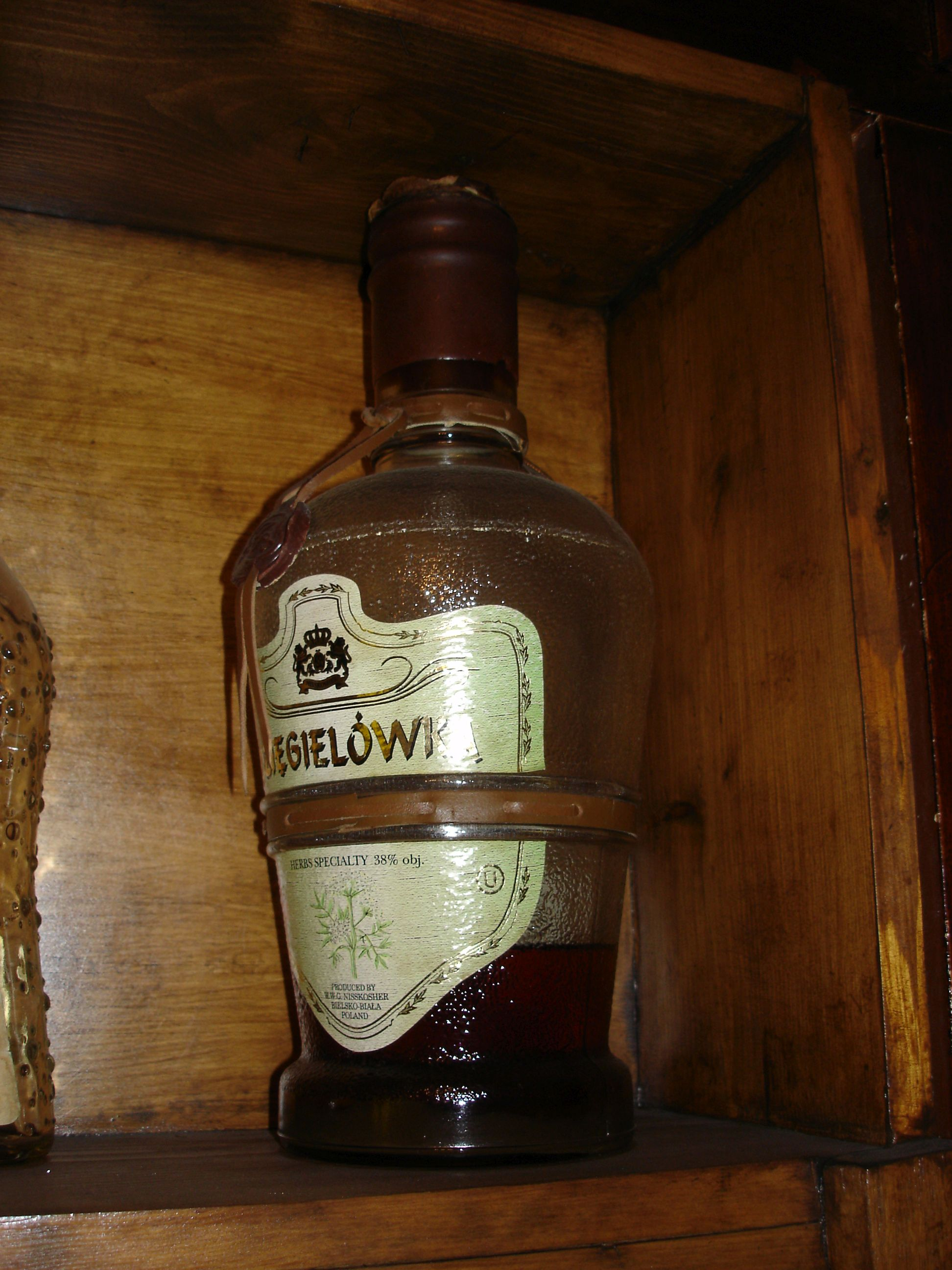 The bottle of dzięgielowka, Polish herbal vodka probably made from Angelica archangelica, produced by Nisskosher, from exhibition at Muzeum Barbary i Stanisława Ptaków in Katowice, Poland.